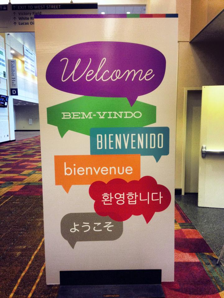 Bienvenida a nazarenos del mundo